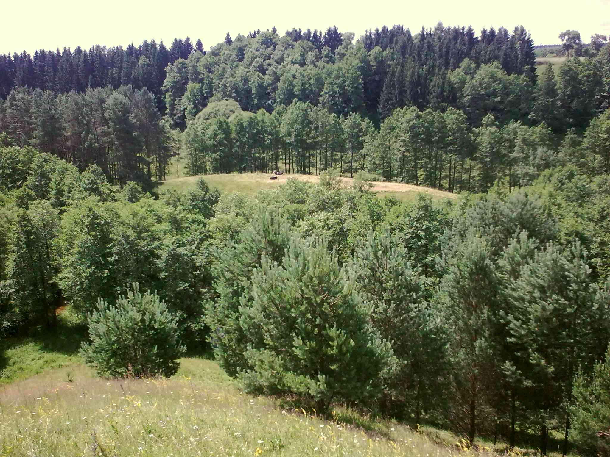 Turtul Esker, hill VI